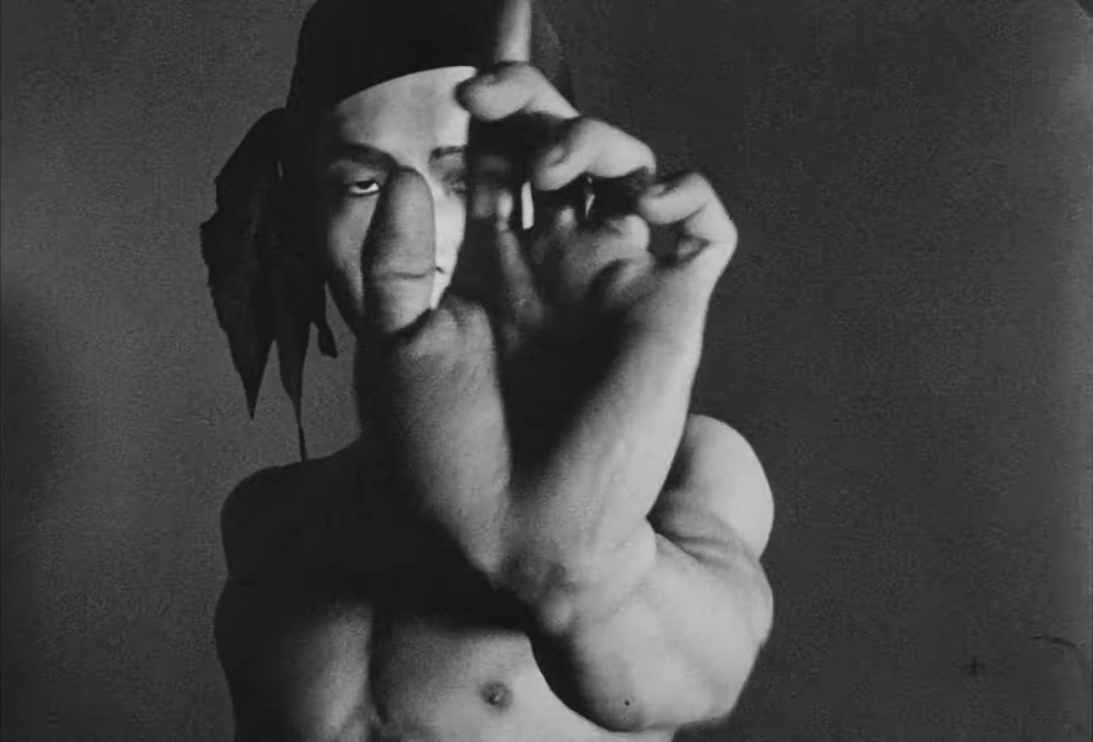 Still from the film Meditation on Violence (1948)